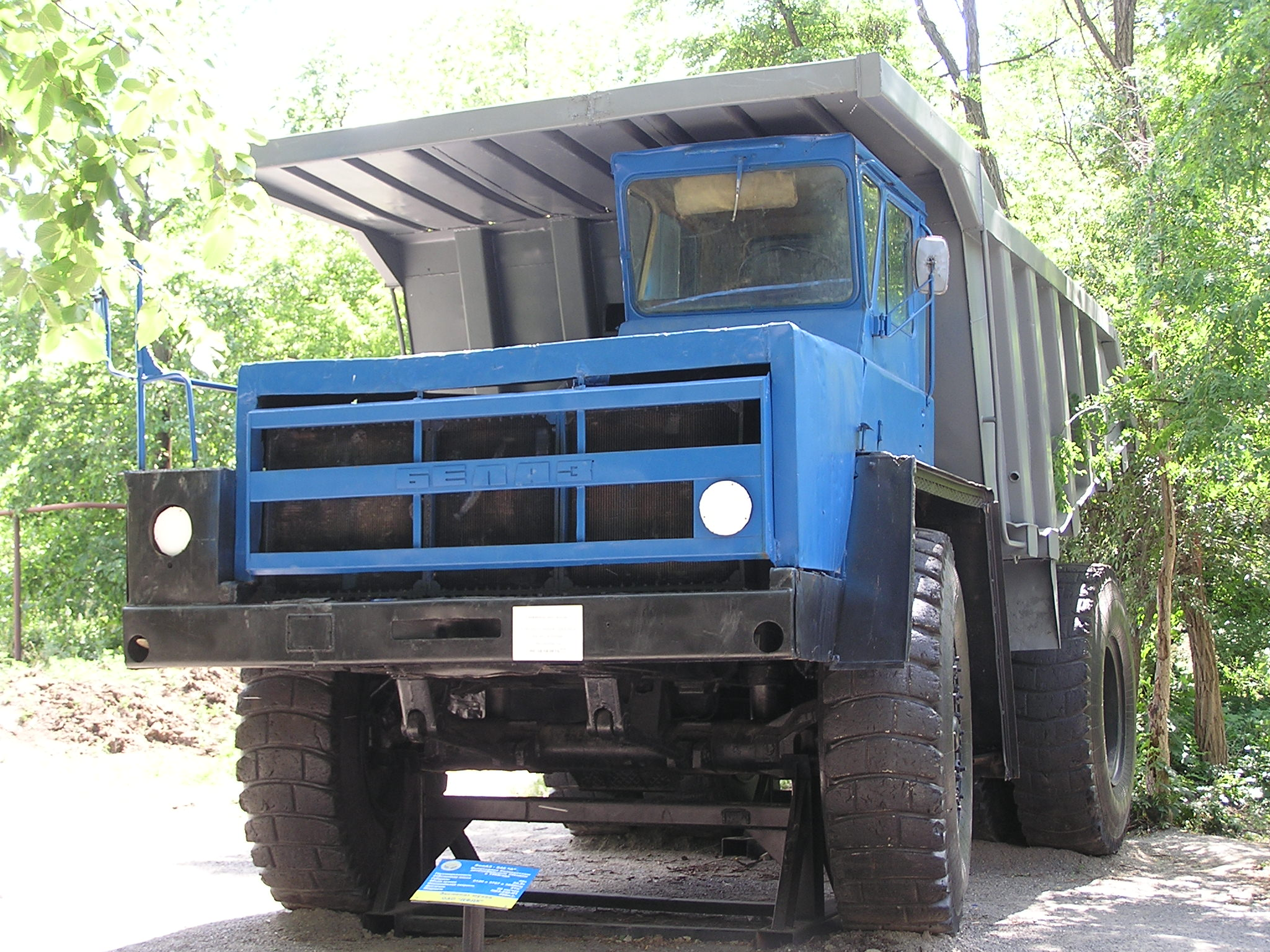 BelAZ-548A dumper, at Museum of Dokuchaevsk flux-dolomite сombined plant